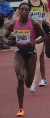 Korene Hinds, Crystal Palace Grand Prix, Diamond League 2012